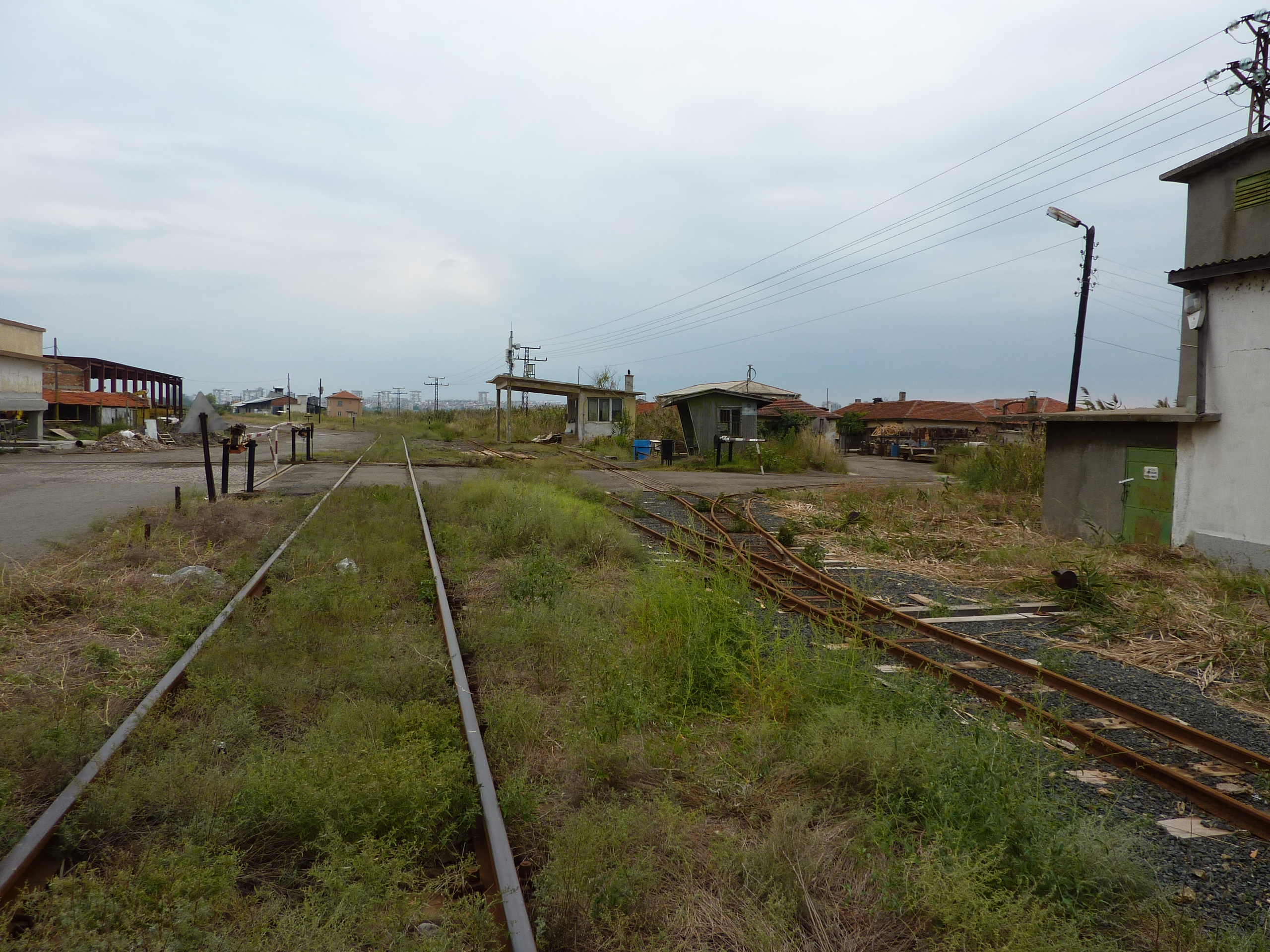 Railway tracks at the Bourgas Salt Work, near Lake Atanasovsko. Standard gauge (left) and narrow gauge (right)